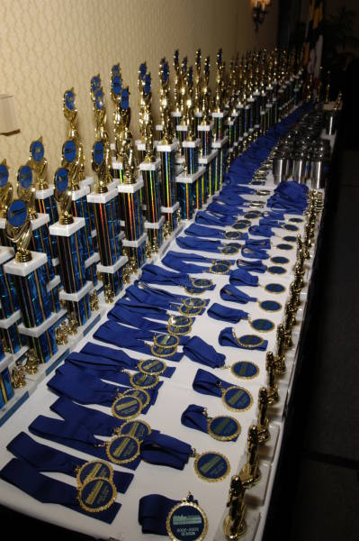 Picture of some trophies at the annual Baltimore Urban Debate League awards ceremony. Source Adam Jackson, student